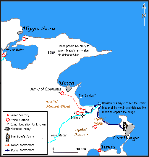 Battle of Bagradas River c240 BC. Presents information Public Domain book "Hannibal" page 134-136 by T.A.Dodge and Polybius 1.76